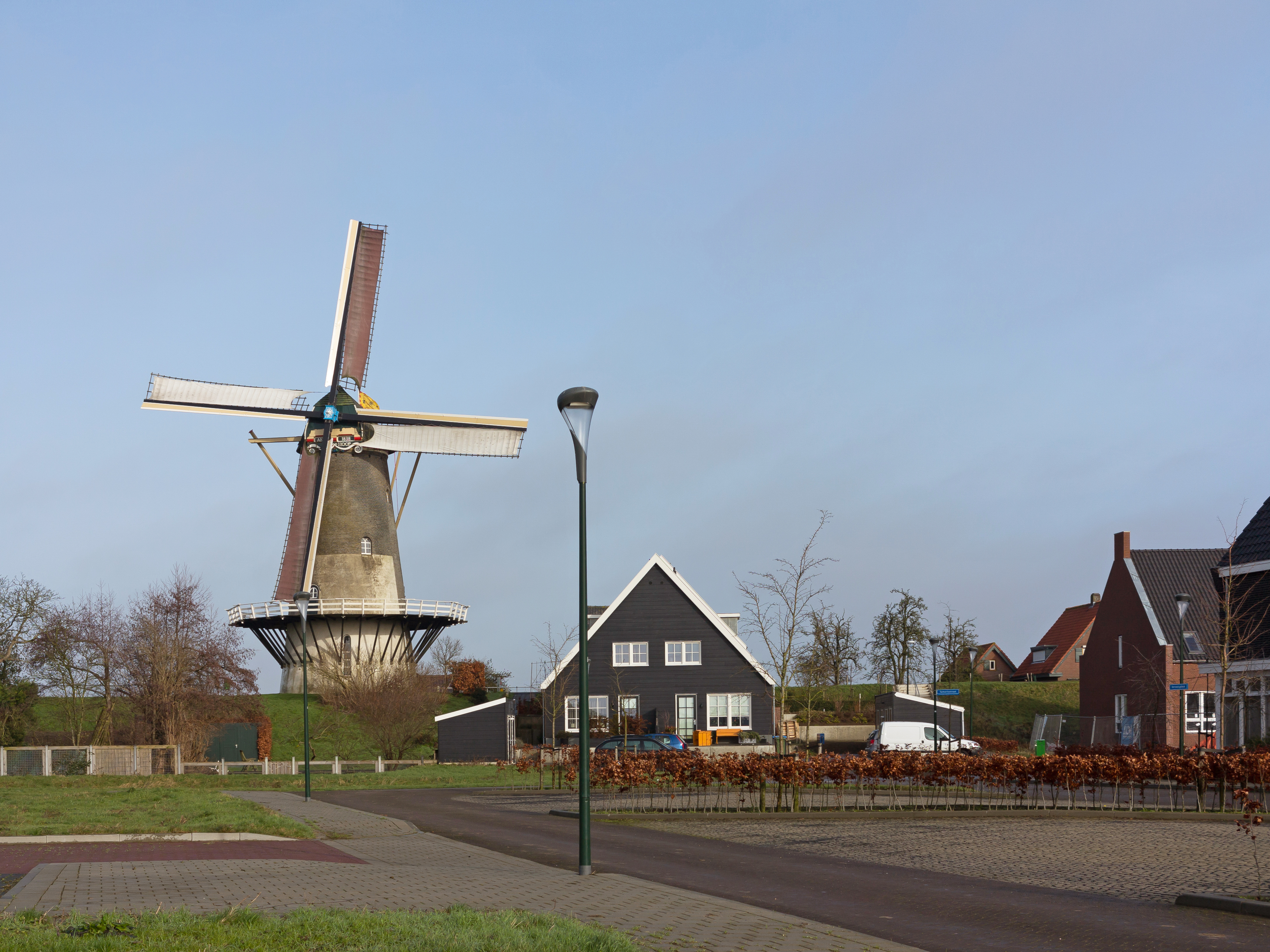 Veen, windmill: molen de Hoop